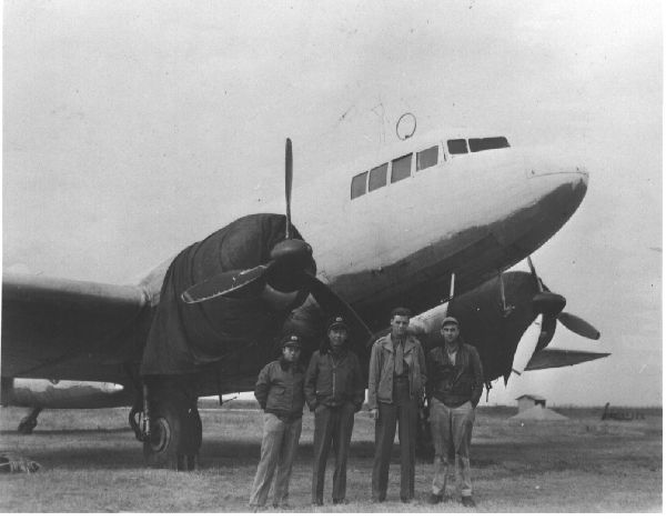 Showa L2D in 1945 with Flying Tigers personnel.